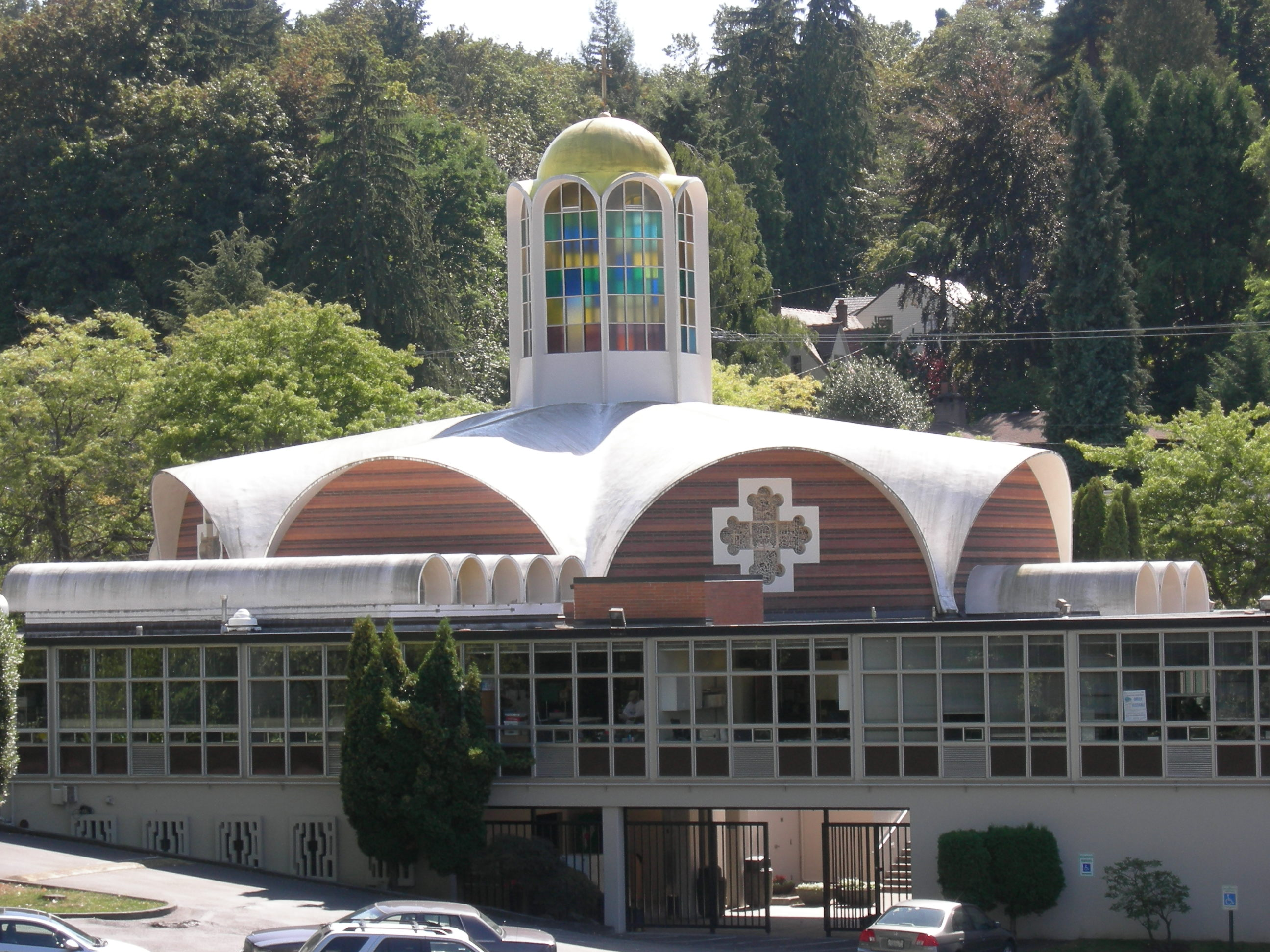 St. Demetrios Greek Orthodox Church, Montlake, Seattle, Washington, seen from near the north (Lynn Street) entrance.